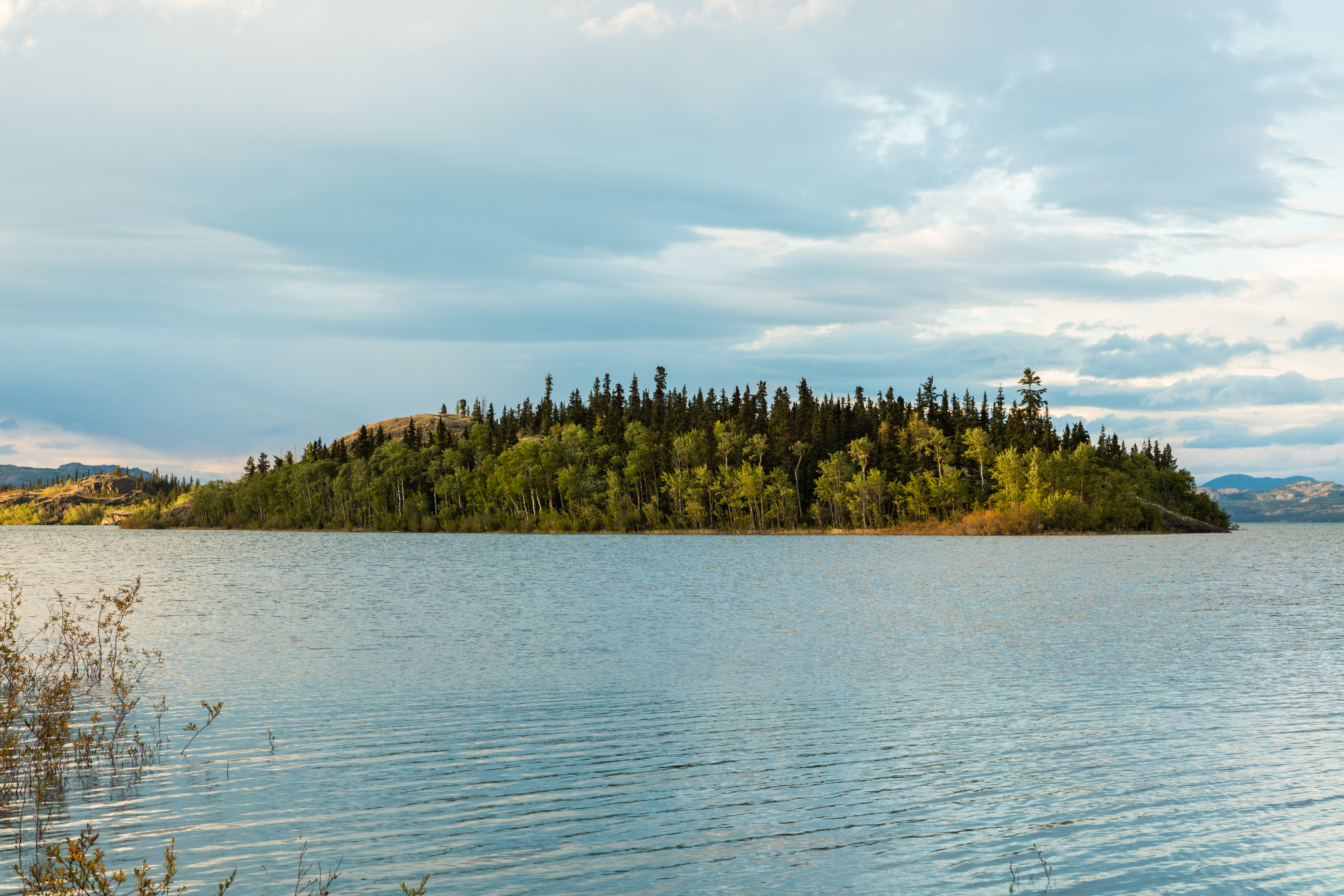 Lake Laberge, Yukon, Canada